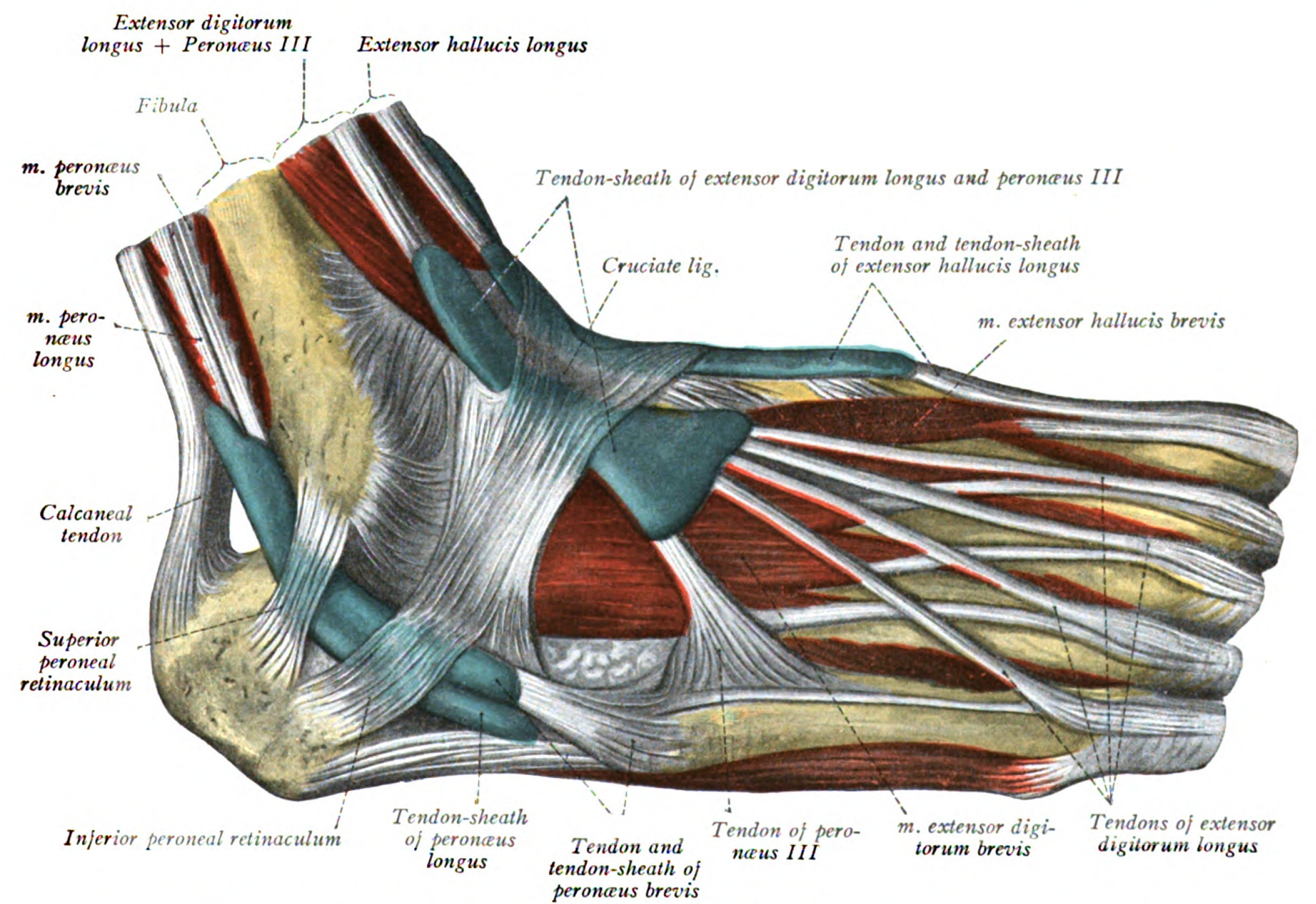 An anatomical illustration from the 1909 edition of Sobotta's Atlas and Text-book of Human Anatomy with English terminology.